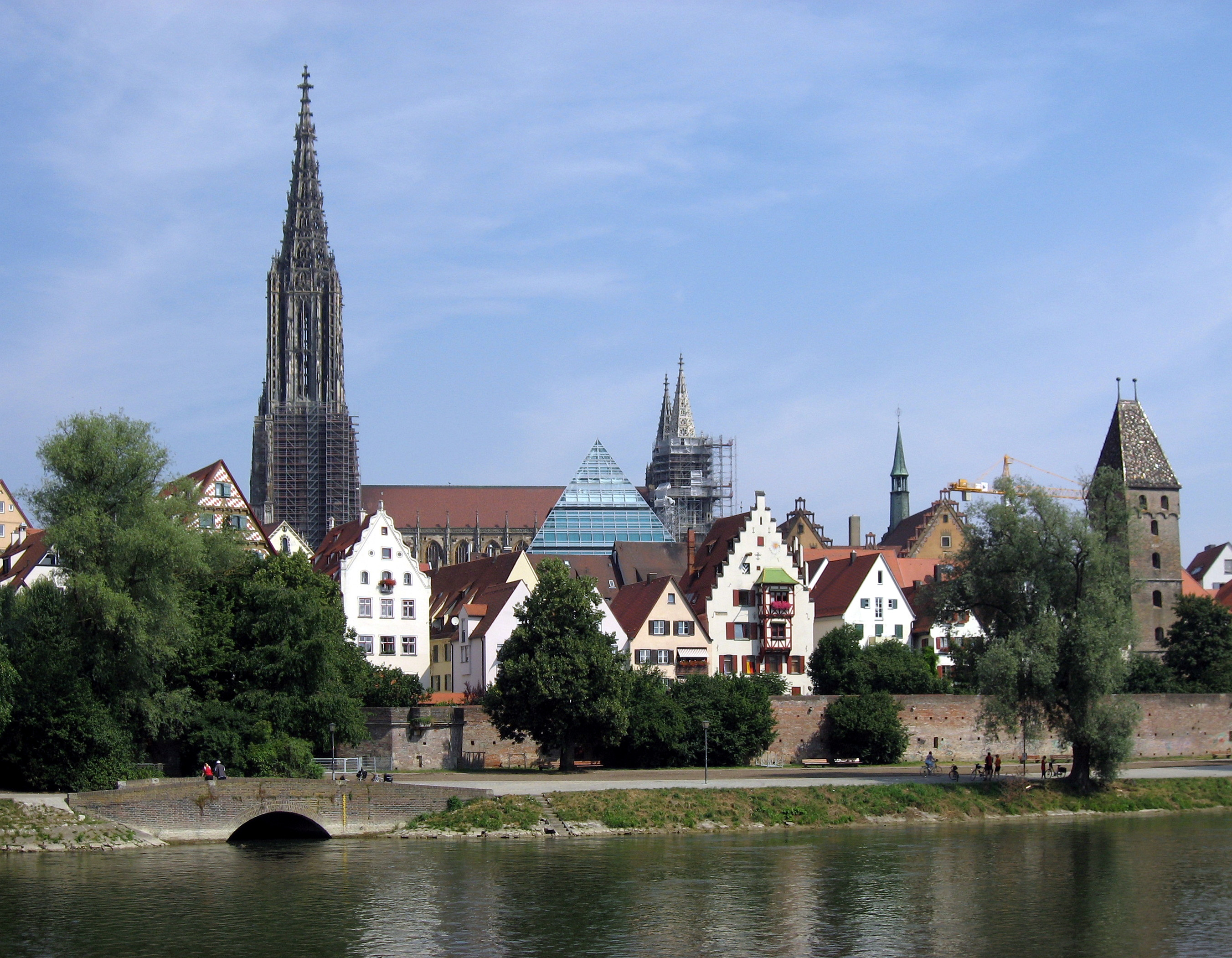 Ulm, Germany, old town with Münster, city wall and Metzgerturm, as seen from the south bank of the river Danube.